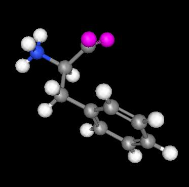 L-Phe - Ball and stick molecular graphics created by program Ghemical